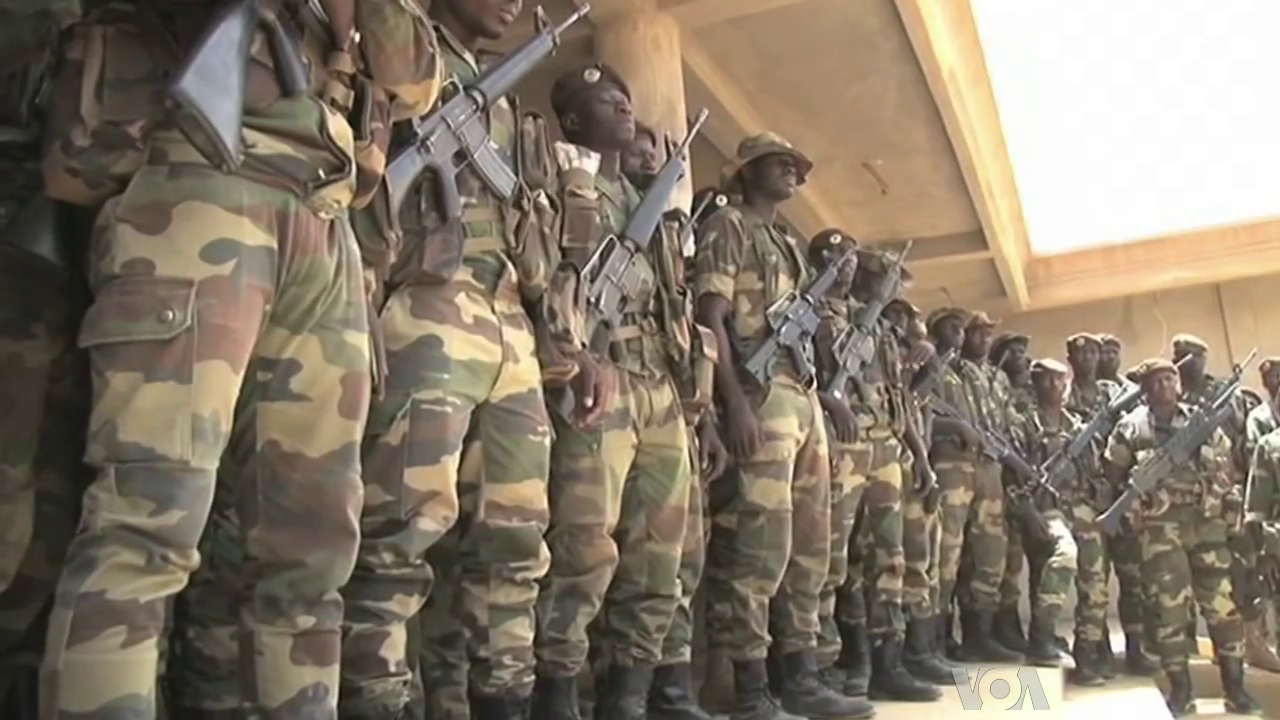 Senegalese forces in Gao, March-April 2013